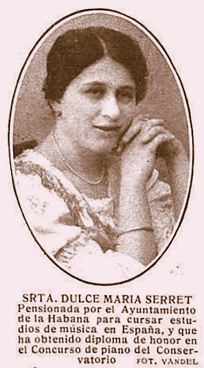 Dulce María Serret Danger (1898 – 30 May 1989) was a Cuban pianist and music teacher. Photograph from Mundo Grafico, Madrid